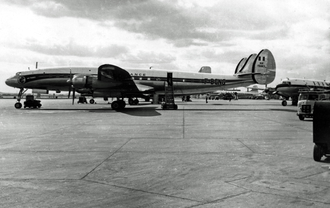 Lockheed L-1049C Super Constellation of Air France at Heathrow North whilst operating a scheduled service from Paris (Orly) Airport